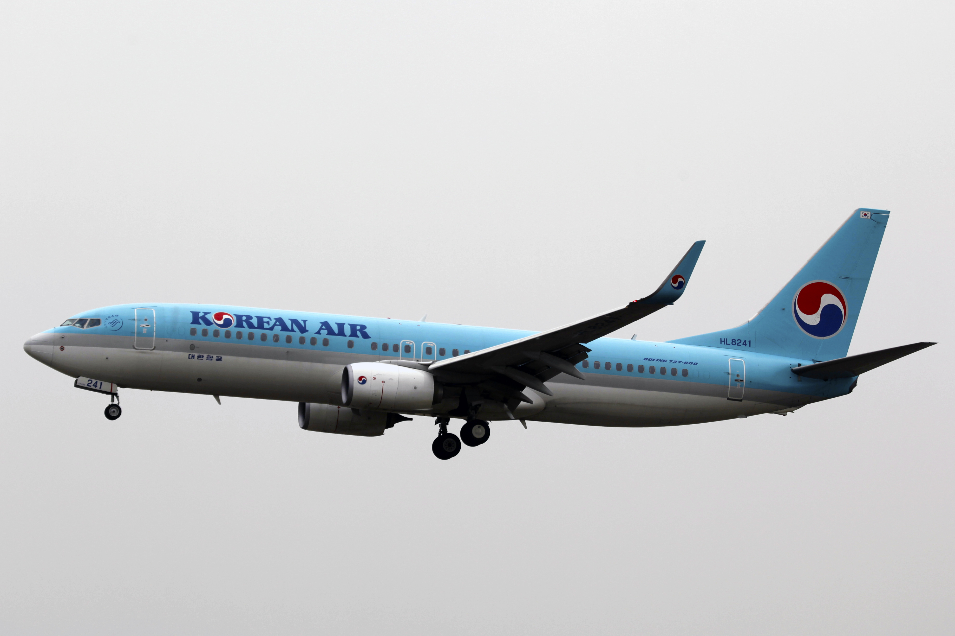 HL8241 | Korean Air Lines | Boeing 737-8BK(WL) | Qingdao Liuting International Airport [TAO]